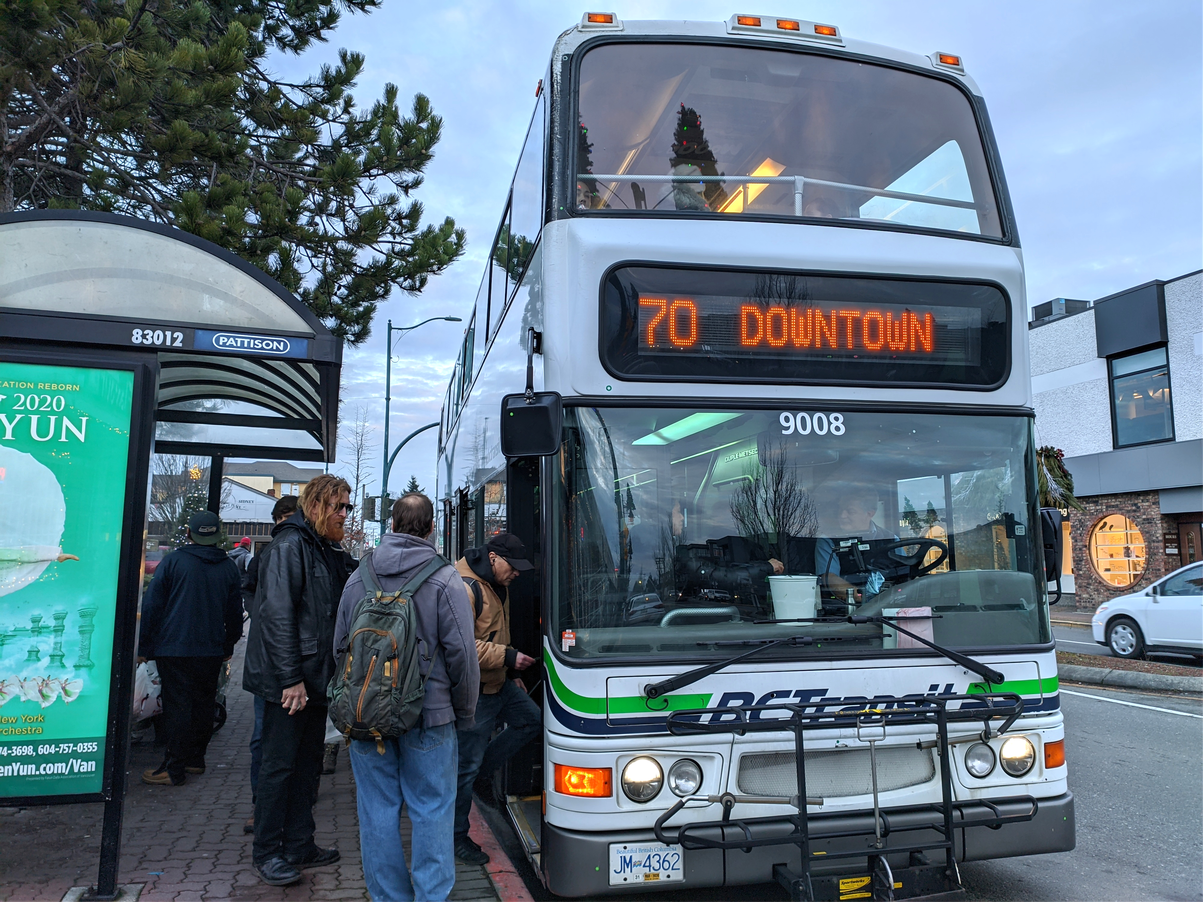 A BC Transit (Victoria Regional Transit System) Dennis Trident at Fifth at Beacon stop in downtown Sidney, BC. December 27, 2019.